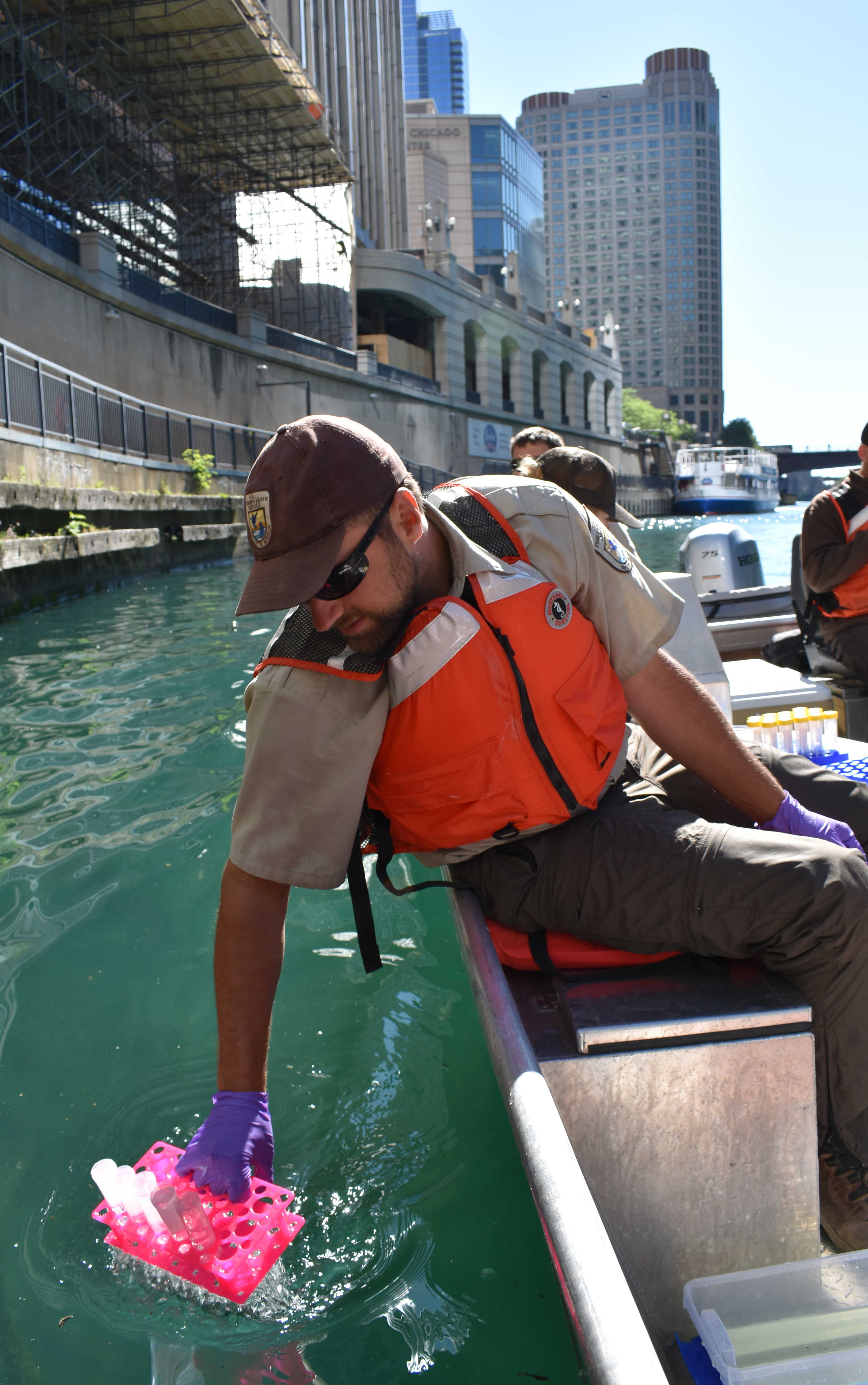 Biological Science Technician Brandon Falish collects water samples from the Chicago Area Waterway for environmental DNA (eDNA) testing.